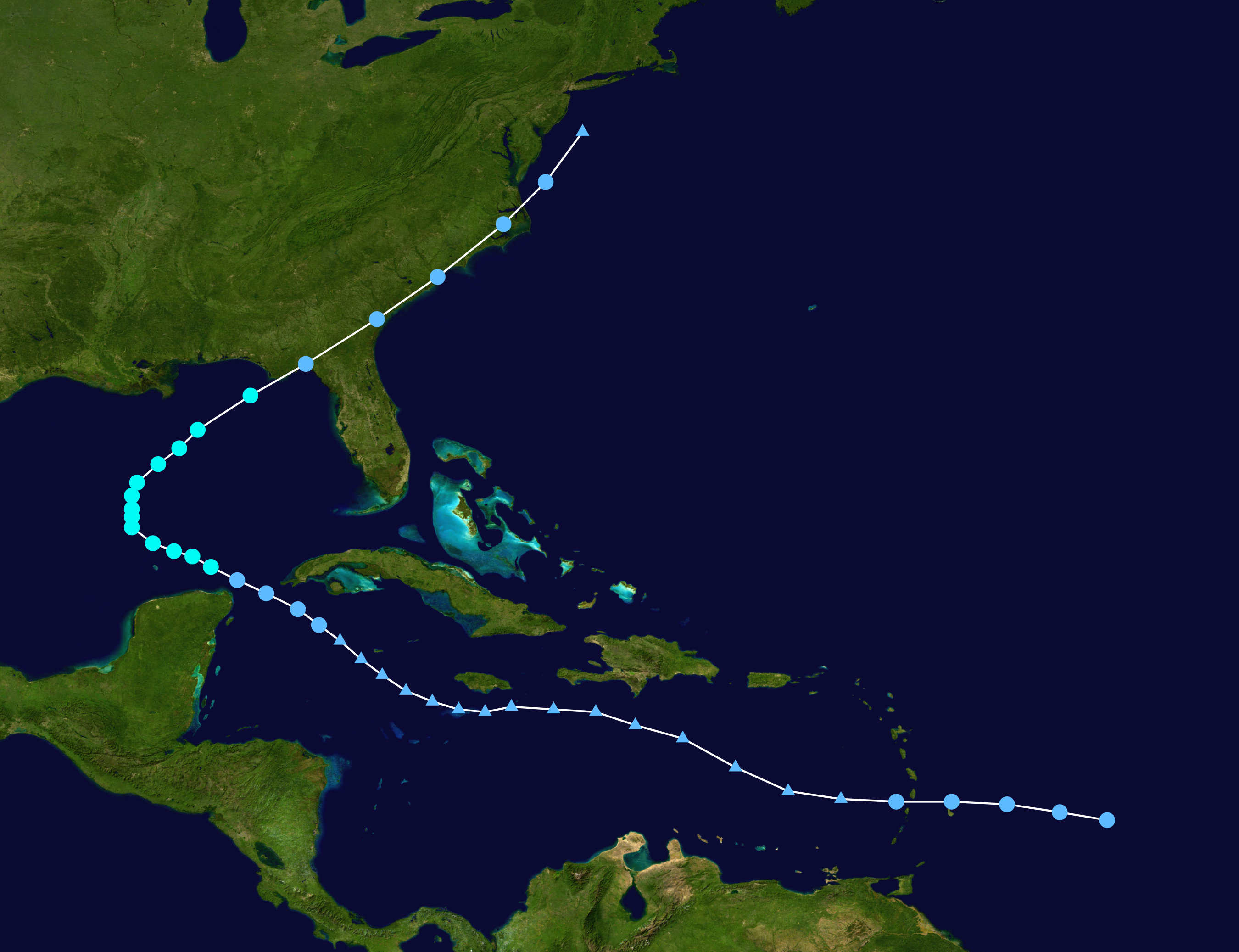 Track map of Tropical Storm Bonnie of the 2004 Atlantic hurricane season. The points show the location of the storm at 6-hour intervals. The colour represents the storm's maximum sustained wind speeds as classified in the Saffir–Simpson scale (see below), and the shape of the data points represent the nature of the storm, according to the legend below. Saffir–Simpson scale Tropical depression≤38 mph≤62 km/h Category 3111–129 mph178–208 km/h Tropical storm39–73 mph63–118 km/h Category 4130–156 mph209–251 km/h Category 174–95 mph119–153 km/h Category 5≥157 mph≥252 km/h Category 296–110 mph154–177 km/h Unknown Storm type Tropical cyclone Subtropical cyclone Extratropical cyclone / Remnant low / Tropical disturbance / Monsoon depression